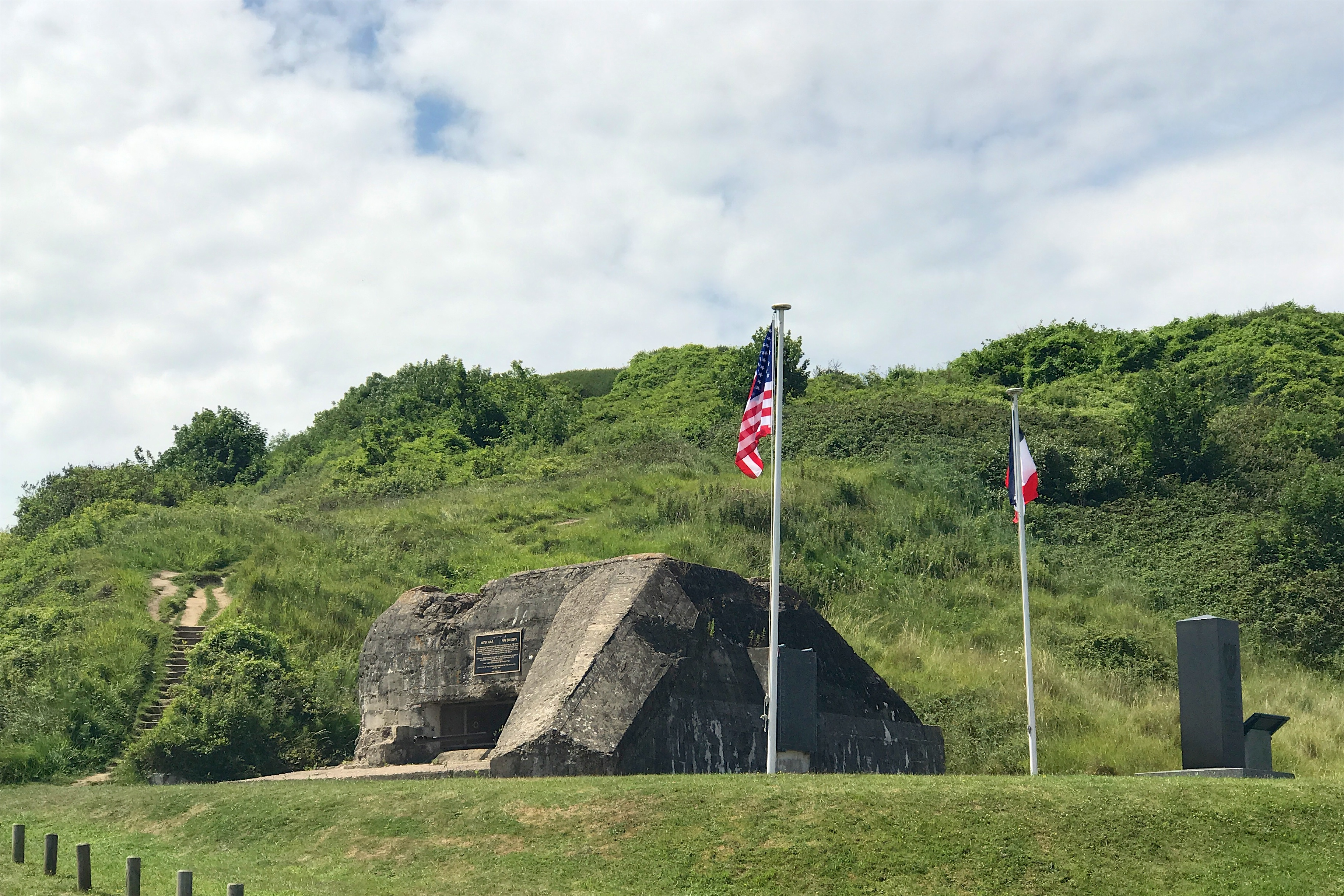 German defensive bunker, Widerstandsnest 65, defending the E-1 draw, on the left, and the US 2nd Infantry Division Monument, on the right, at Omaha Beach. The 2nd Infantry Division landed here on D+1, 7 June 1944.